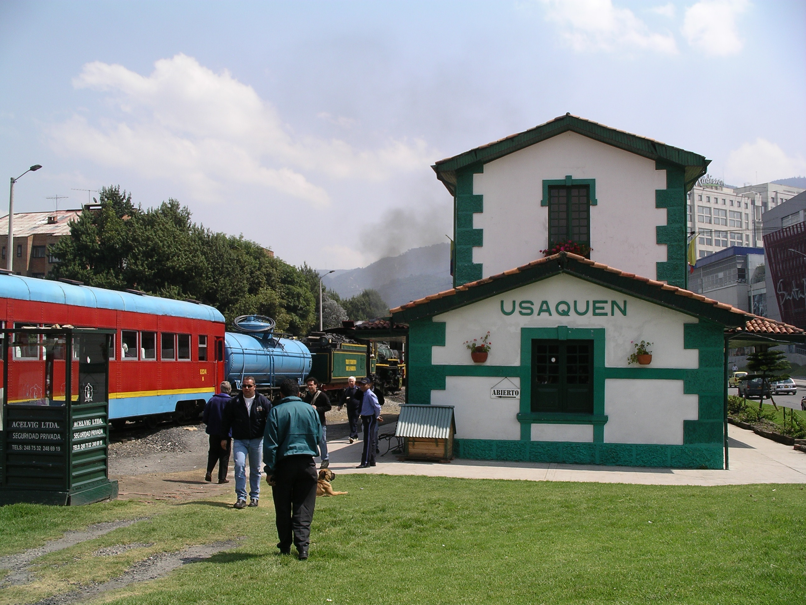 Usaquén train station in north-east part of Bogota, Colombia